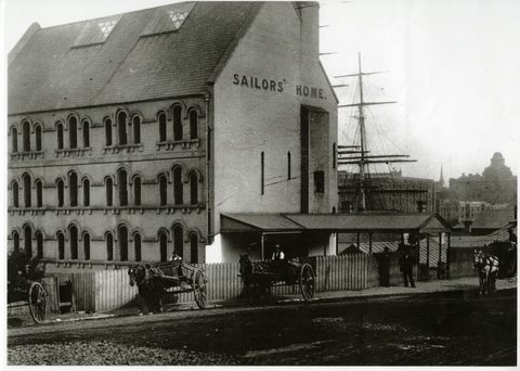 Old Sailors Home circa 1880